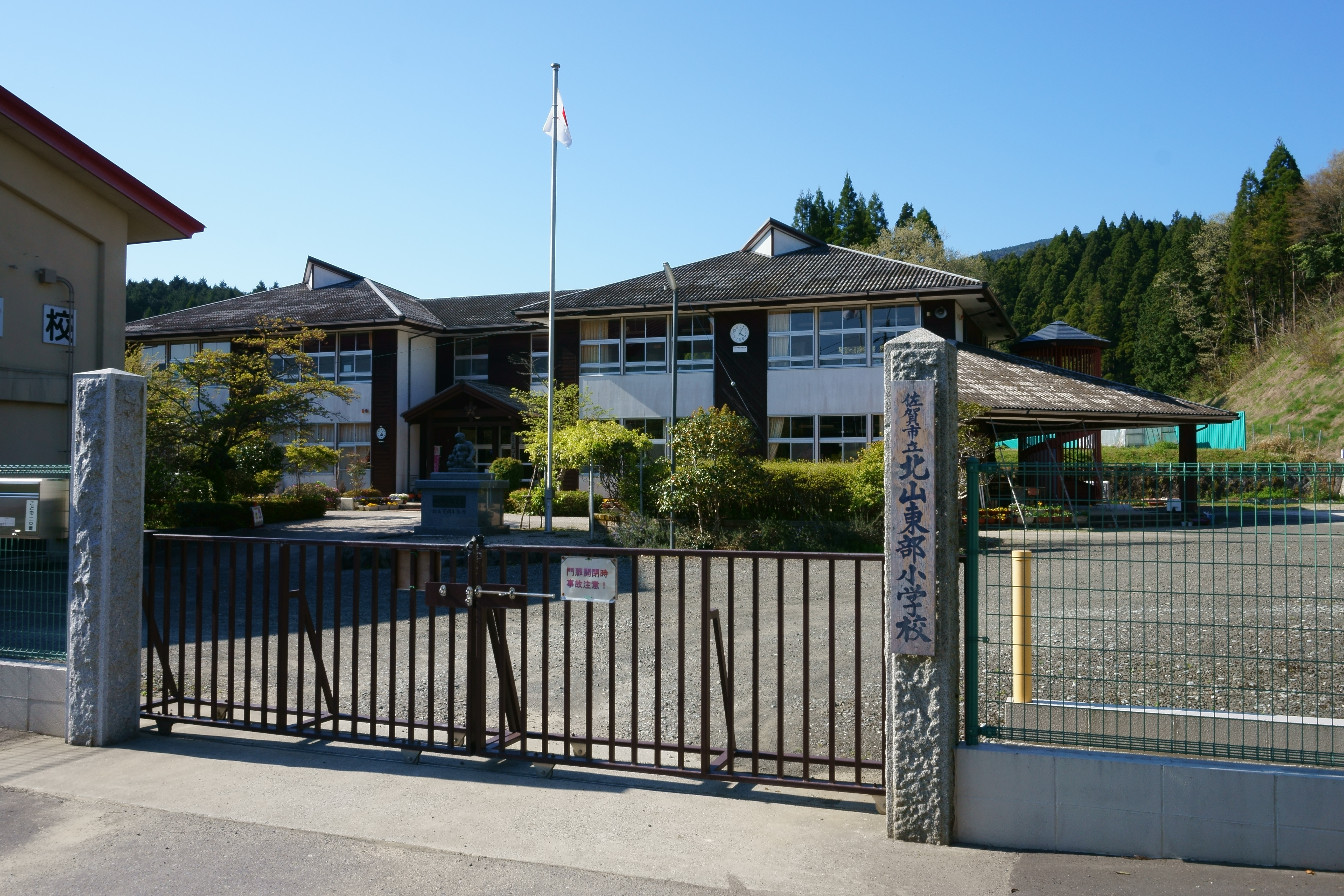 Hokuzan-tobu Elementary School, a Saga municipal school in Fuji, Saga city, Saga prefecture.